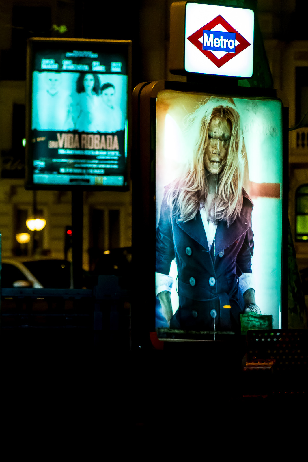 Modified fashion advertisment by vermibus